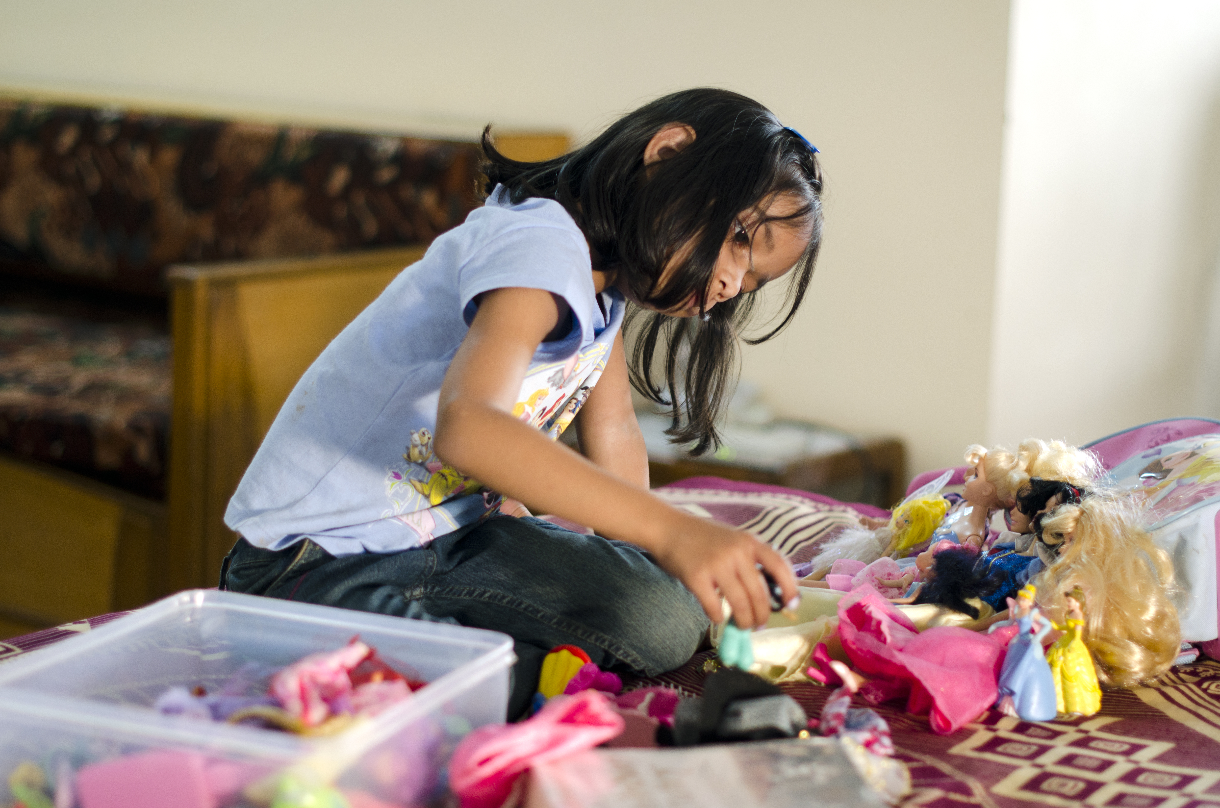 An USA return Indian girl plays with Barbie dolls she acquired from USA.